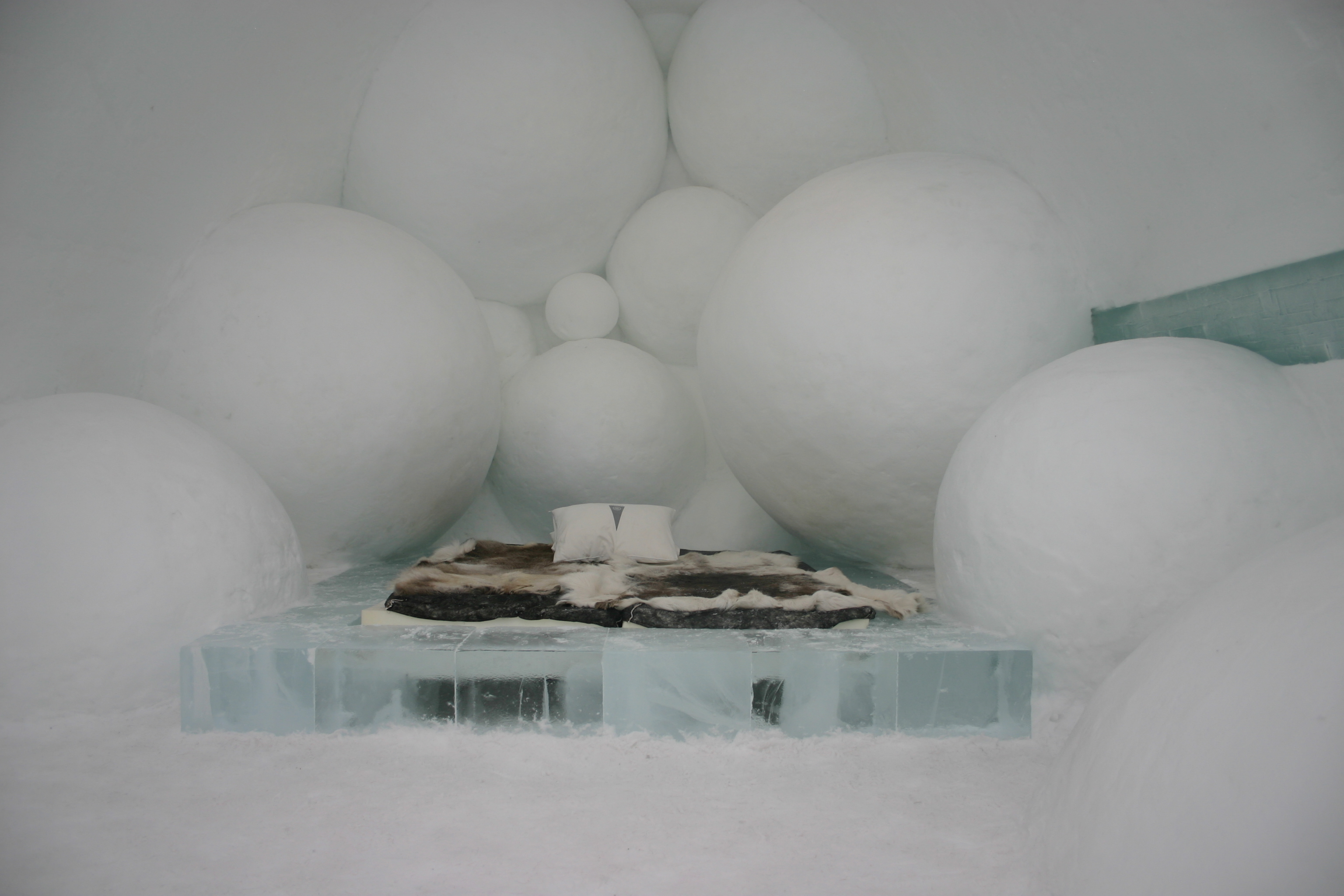 The Ice Hotel in Sweden. The Ice Hotel near the village of Jukkasjärvi, Kiruna, Sweden